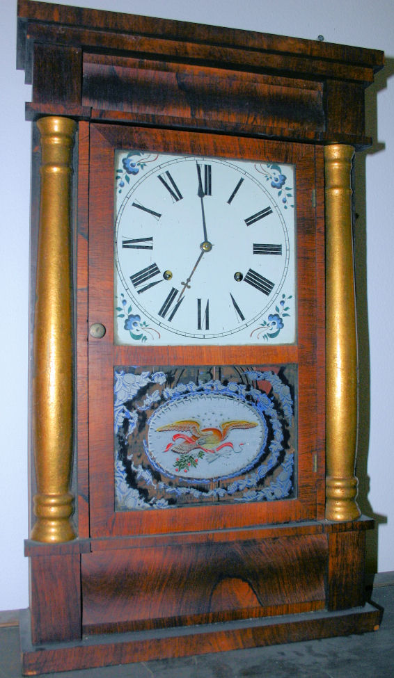 A clock from Chauncey Jerome's clock company (according to markings inside), presumed 19th century